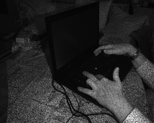 IR-image from Kinect with special laser point pattern